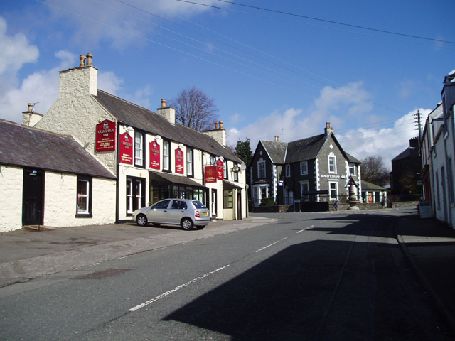 St John's Town of Dalry This beautifully situated village located on a slope leading down to the Water of Ken developed to serve pilgrims on their way to St Ninian's Cathedral Church at Whithorn. Today this is a popular stop of point for walkers on The Southern Upland Way which passes through the village, This photo is in the heart of the village with the popular Clachan Inn on the left.